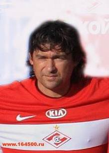 Dmitri Vasilyevich Ananko (born September 29, 1973 in Novocherkassk) is a retired Russian football player.